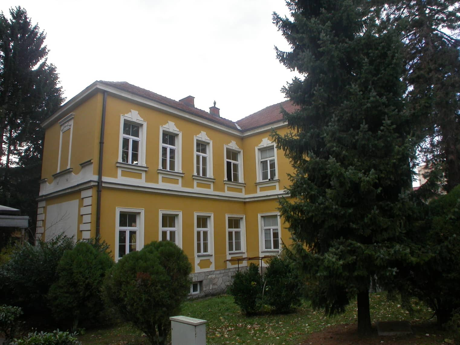 The side view of the hospital in Krčagovo, Užice